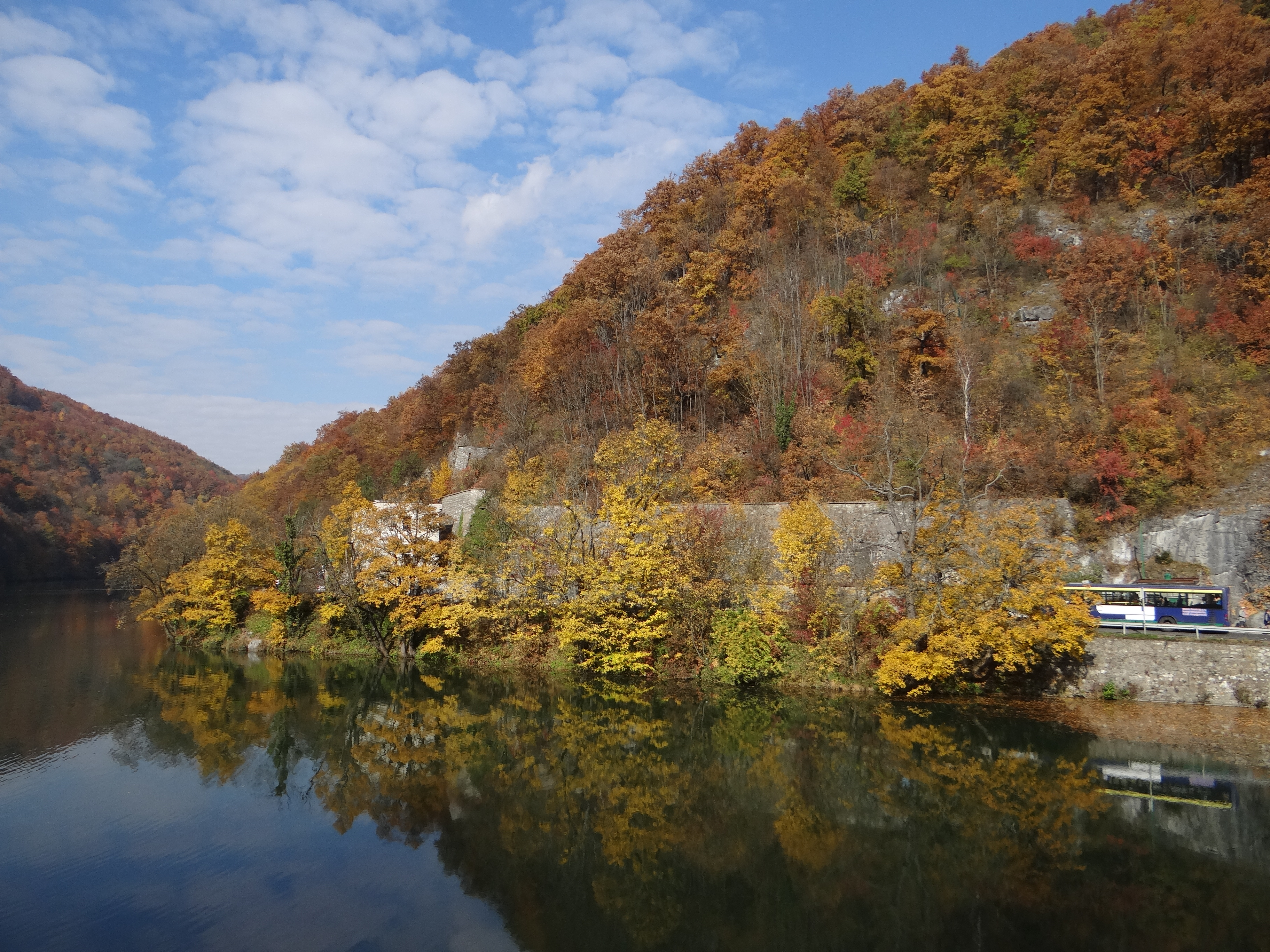 Hámori lake with "The Rock", Lillafüred, Miskolc, Hungary